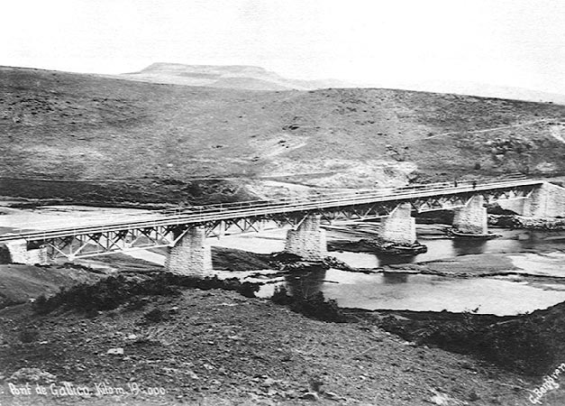 Railway bridge over River Gallikos, on the Jonction Salonique-Constantinople line.